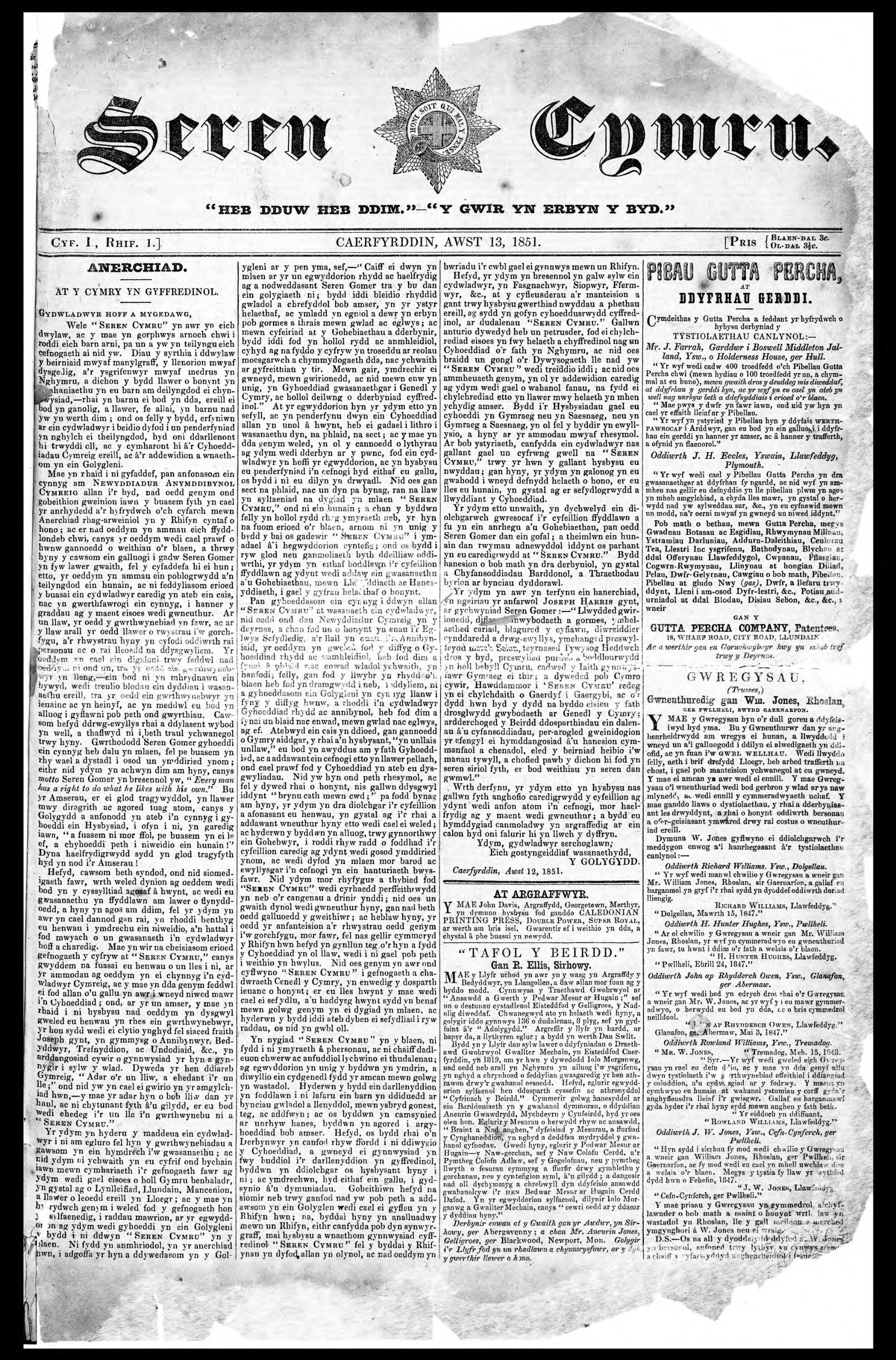 Front page of the earliest surviving copy of the Welsh newspaper Seren CymruCymraeg: Tudalen flaen y copi cynharaf sydd yn bodoli o'r papur newydd Cymraeg Seren Cymru